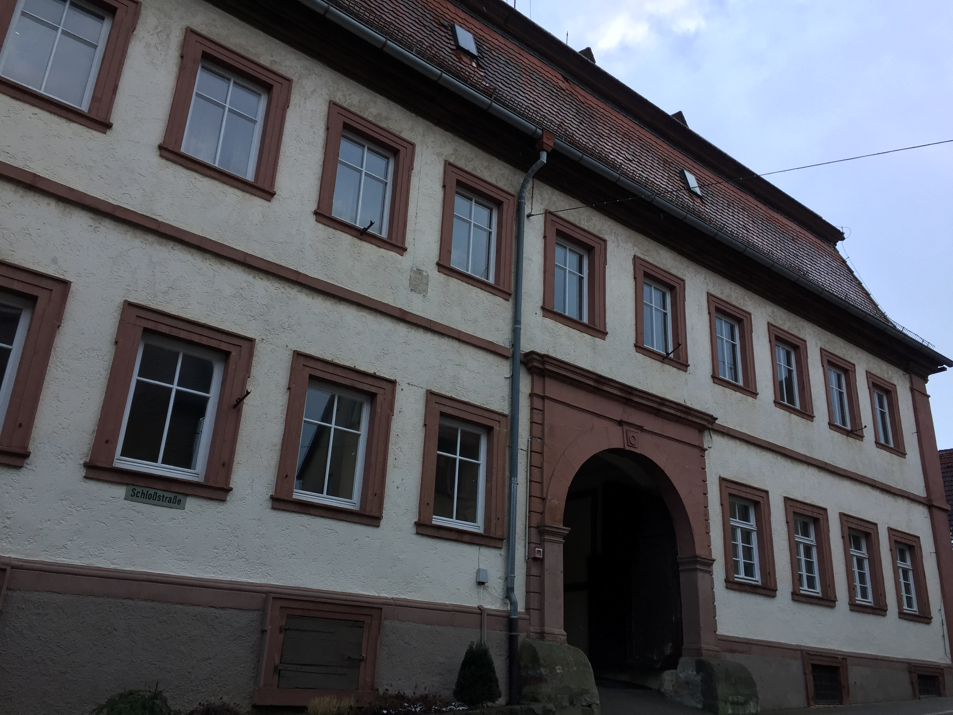 The photo has been taken in Januar 2018